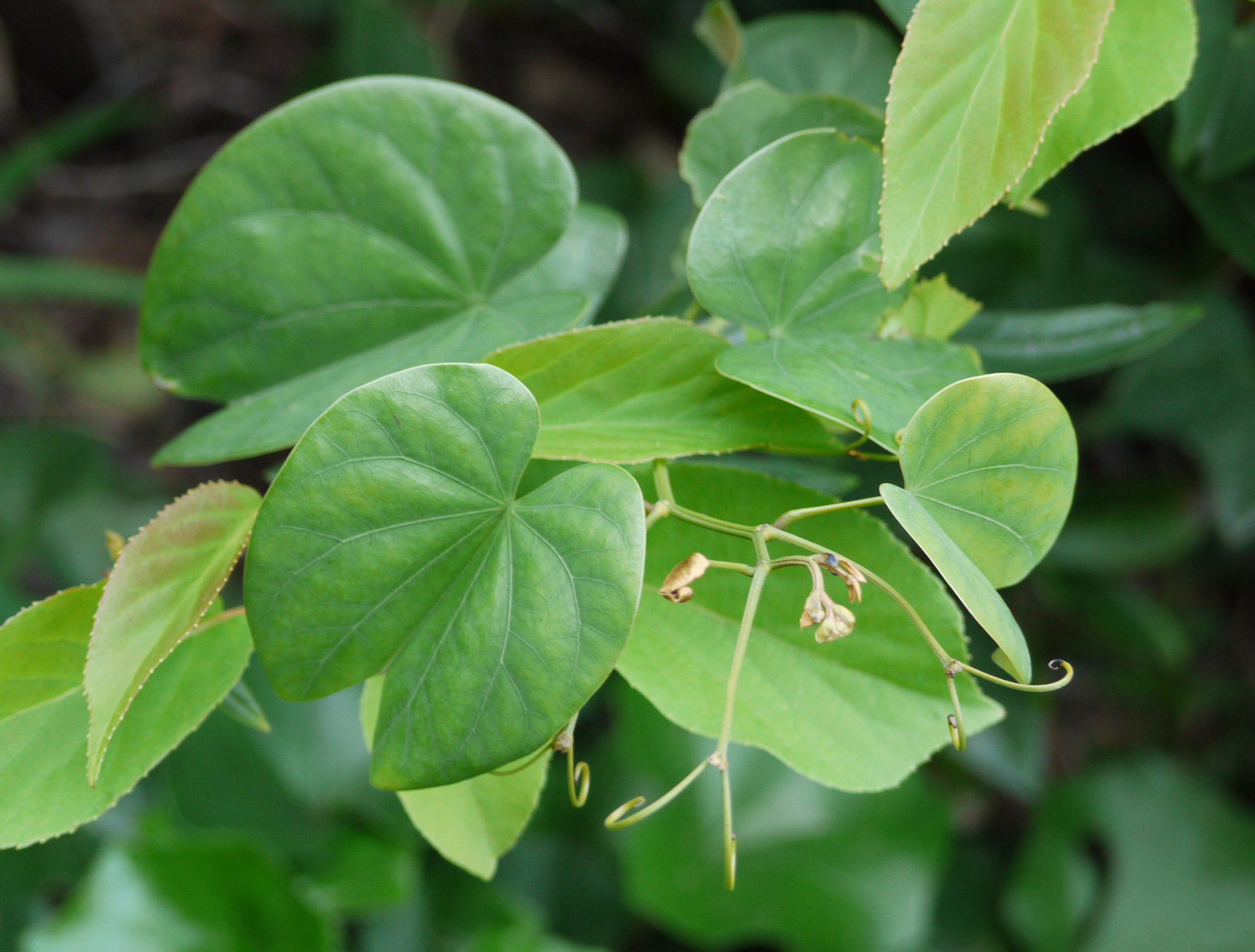 Bauhinia japonica(Caesalpiniaceae)